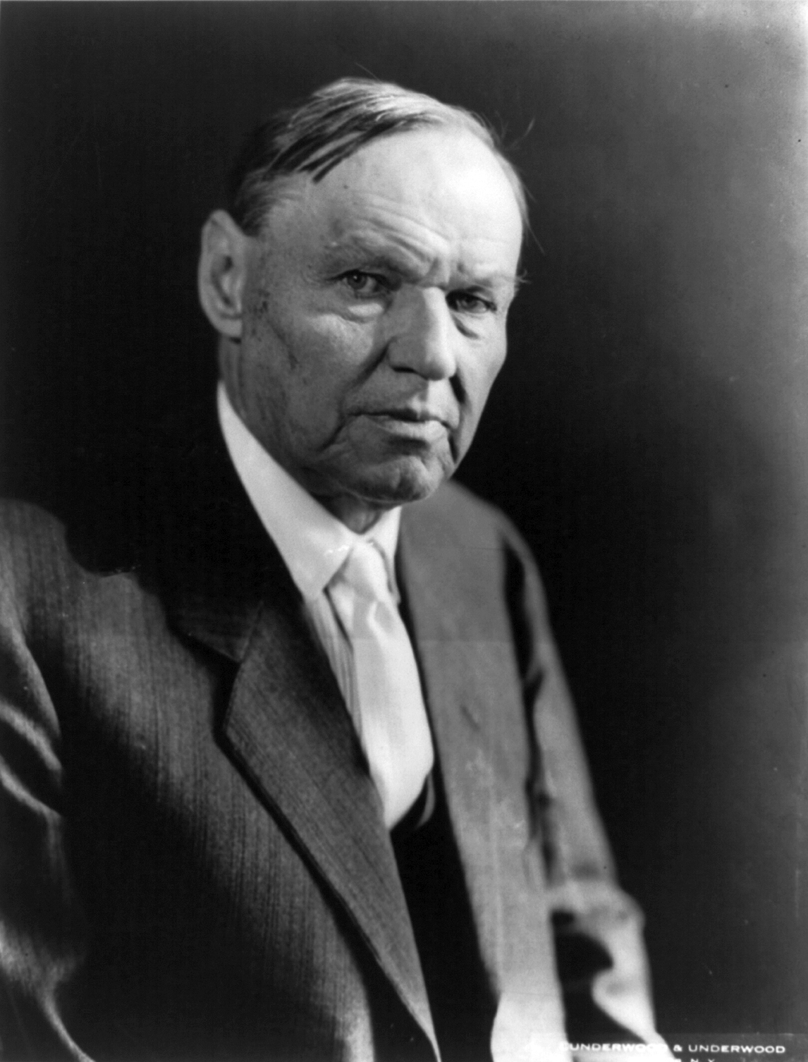 Clarence Darrow, American lawyer famous for the Scopes Trial